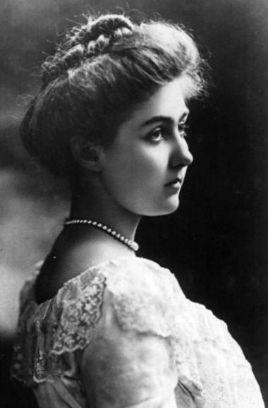 Princess Patricia of Connaught; later Lady Patricia Ramsay (1886–1974)